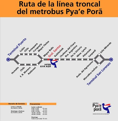 Ruta BRT Paraguay